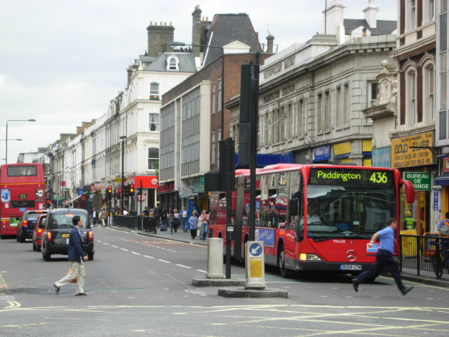 Praed Street, Paddington A pedestrian dashes across the western end of Praed Street avoiding the bendy bus starting away from the traffic lights at the end of its journey from Lewisham.